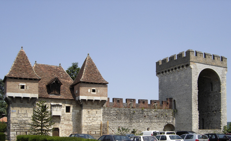 The medieval walls, the Barbacane at Cahors, France.